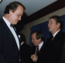 President Ronald Reagan, Howard Baker, Henry Kissinger, Fred Thompson, W. Clement Stone, and unidentified (2A-31A) Republican Majority Fund Reception and Dinner